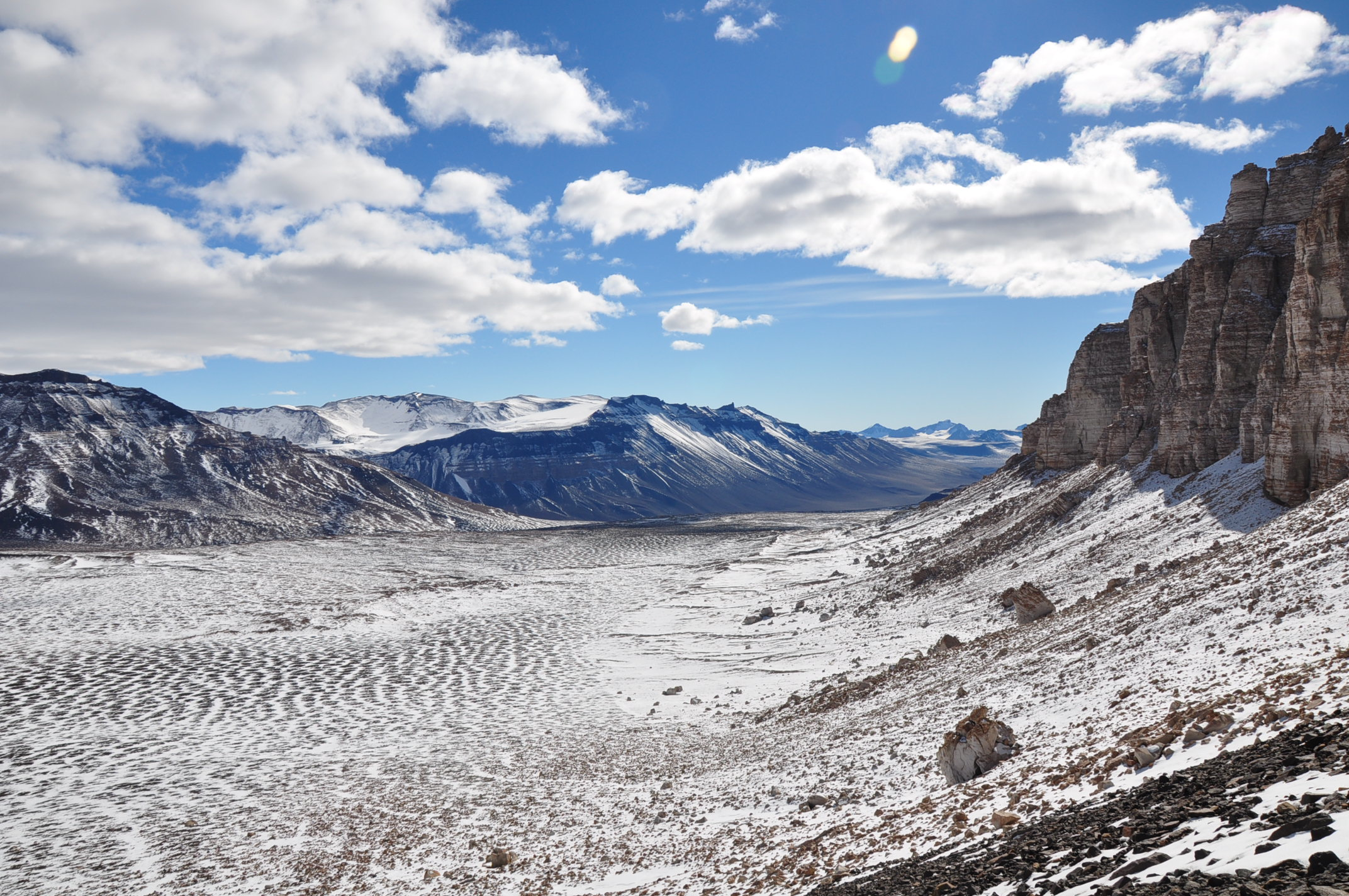 Photograph of Wall Valley, Antarctica. View is looking north towards McKelvey Valley, in view are the northern and eastern boundaries of Wall Valley.